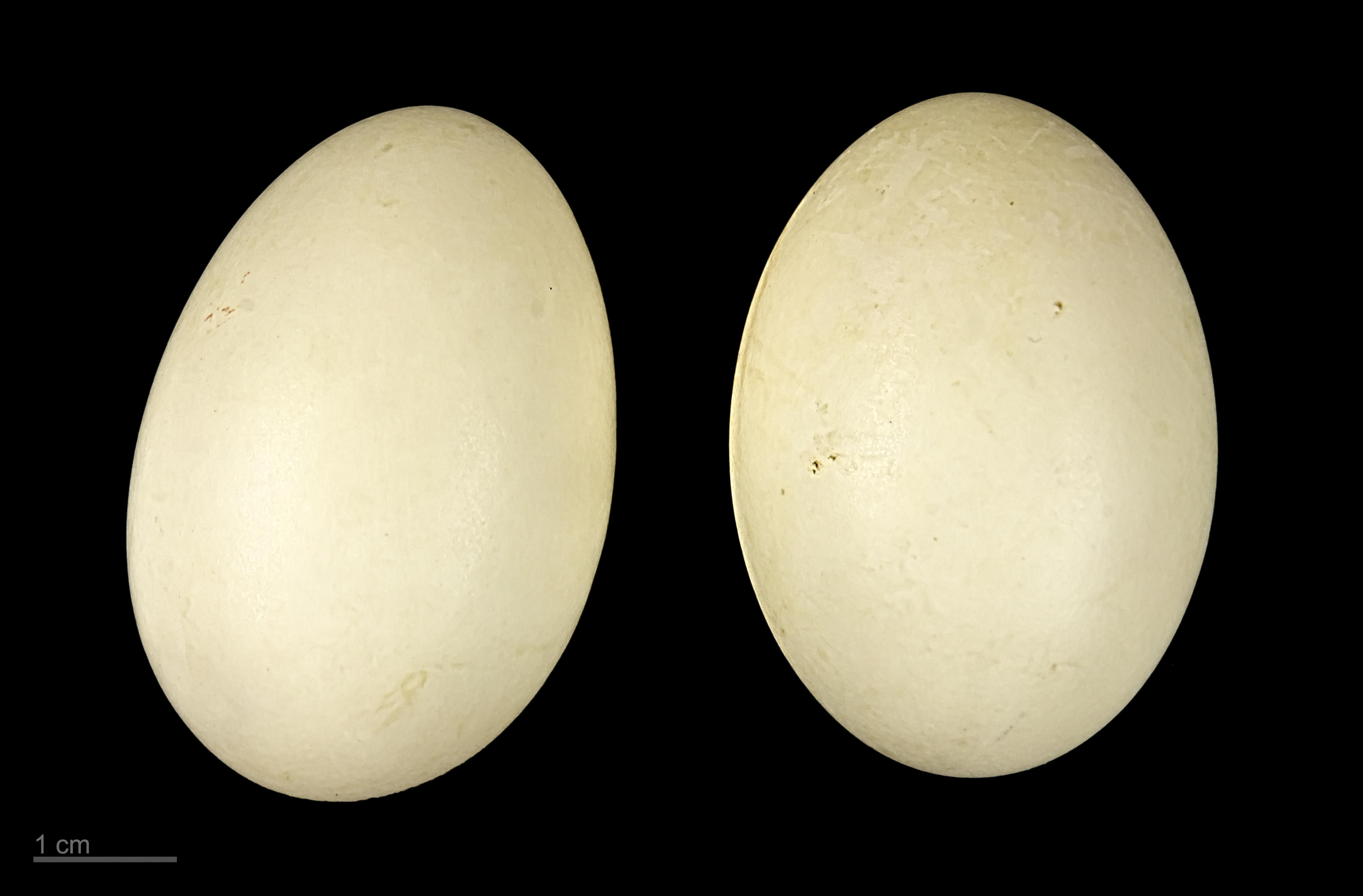 Eggs of blue-winged teal Two specimens of the same spawn ; collection of Jacques Perrin de Brichambaut.